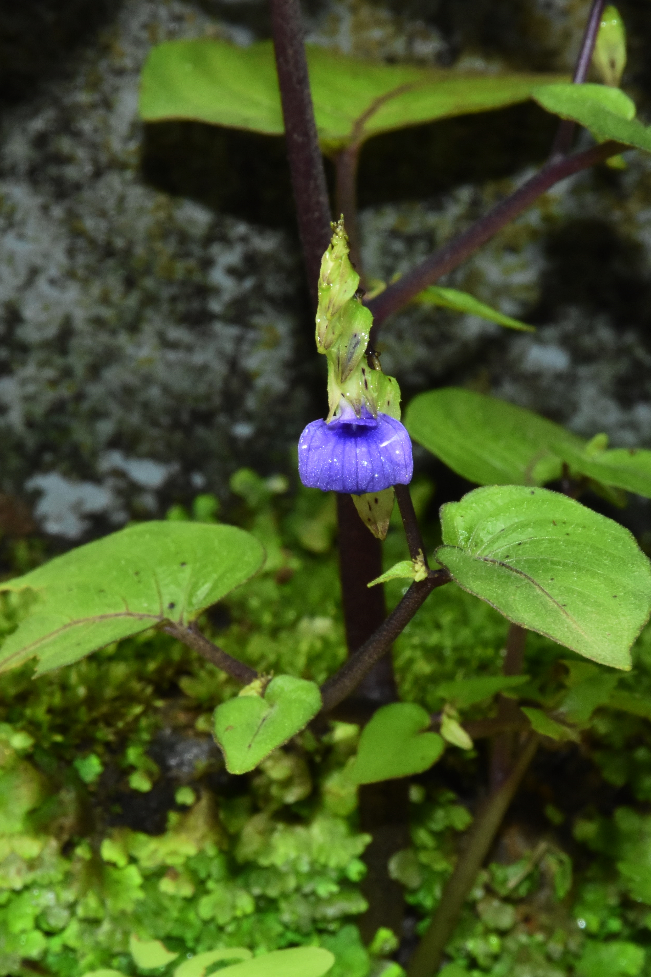 From Kannur, Kerala